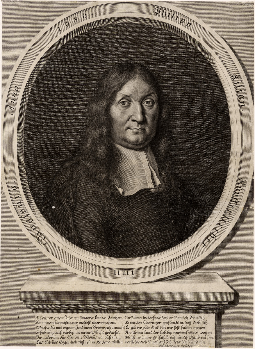 Depicted person: Philipp Kilian